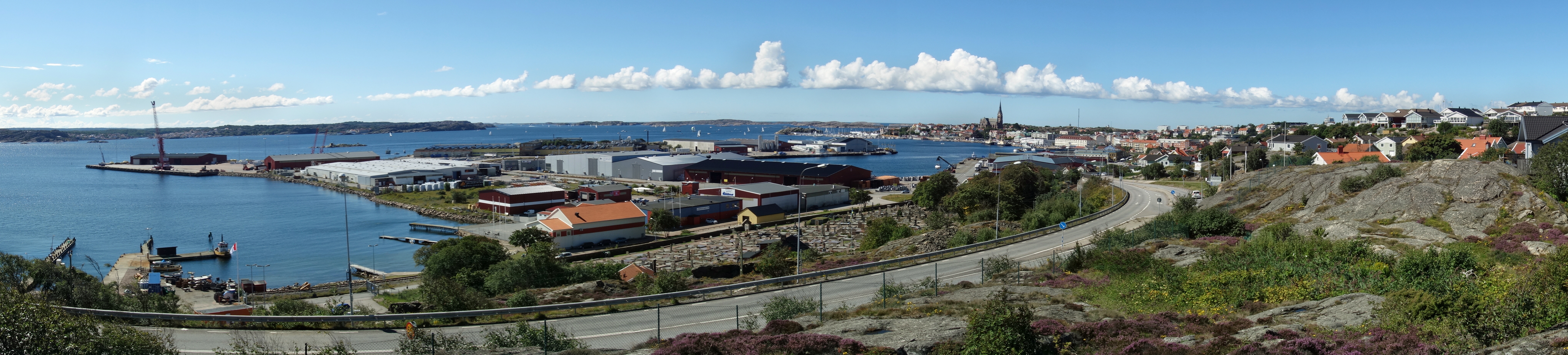 Panorama of southeast Lysekil and the South Harbour, Sweden.